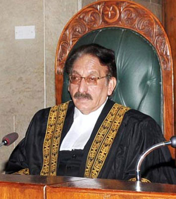 CJ in full Court last Day